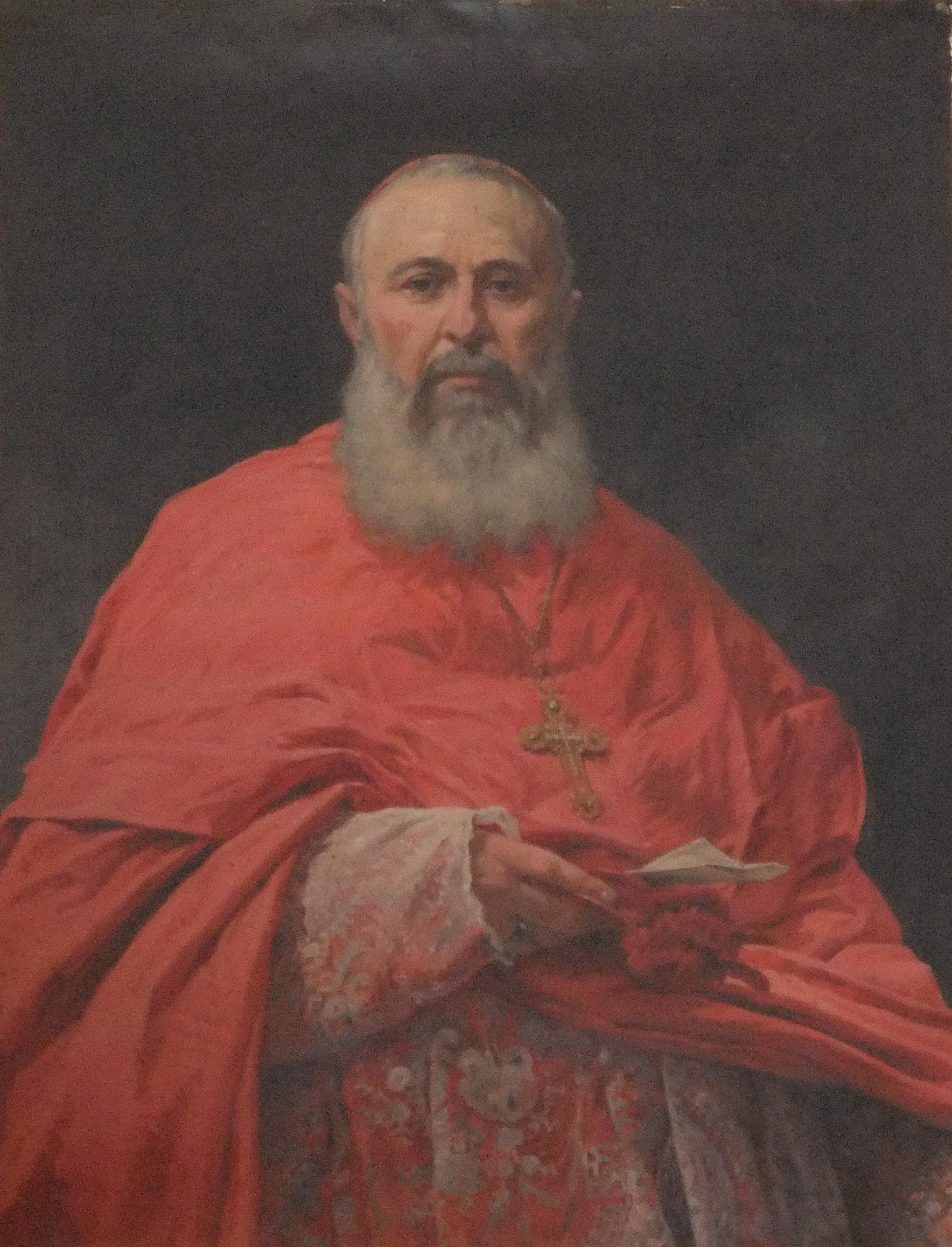 Cardinal Charles Martial Lavigerie (1825–1892) : This oil painting is on display at the church of Sant'Agnese in Agone — Italy, Rome — where Monsignor Bishop Charles Lavigerie held. The name of the artist and the date of completion are still unknown. Further information in this regard would be most welcome!